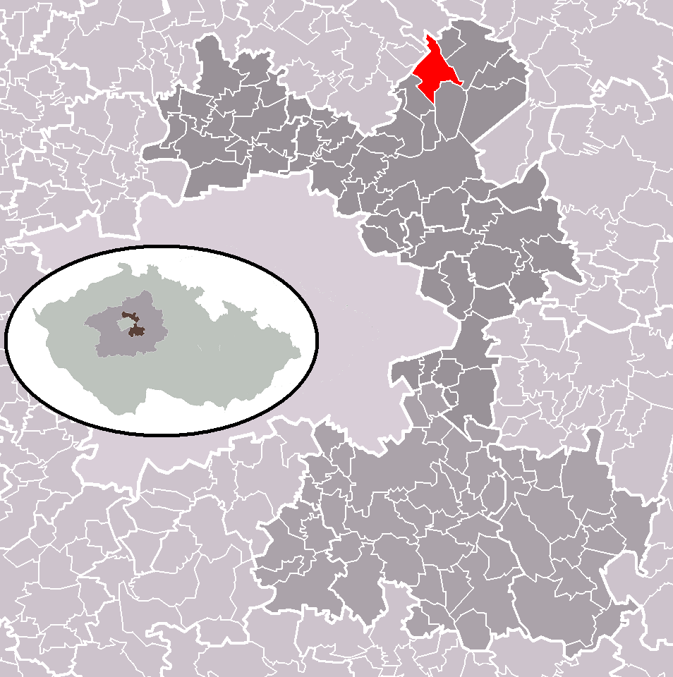 Location of Dřísy municipality within Prague-East District and administrative area of Brandýs nad Labem-Stará Boleslav as a Municipality with Extended Competence.